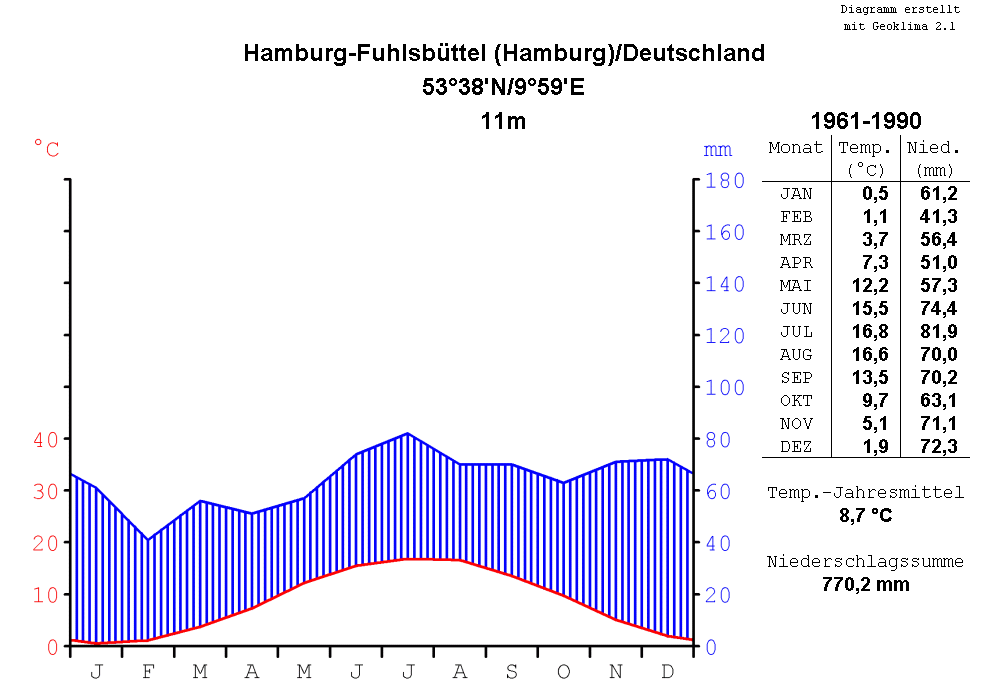 climate chart of Hamburg-Fuhlsbüttel, Hamburg, Germany, for the period of time from 1961 to 1990, in the format by Walter and Lieth, metric, °Celsius and millimeters, chart made with Geoklima 2.1, label in German